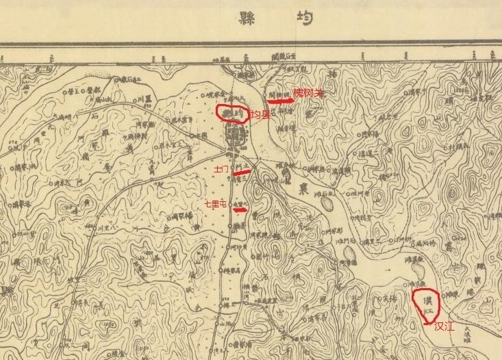 junzhou junxian